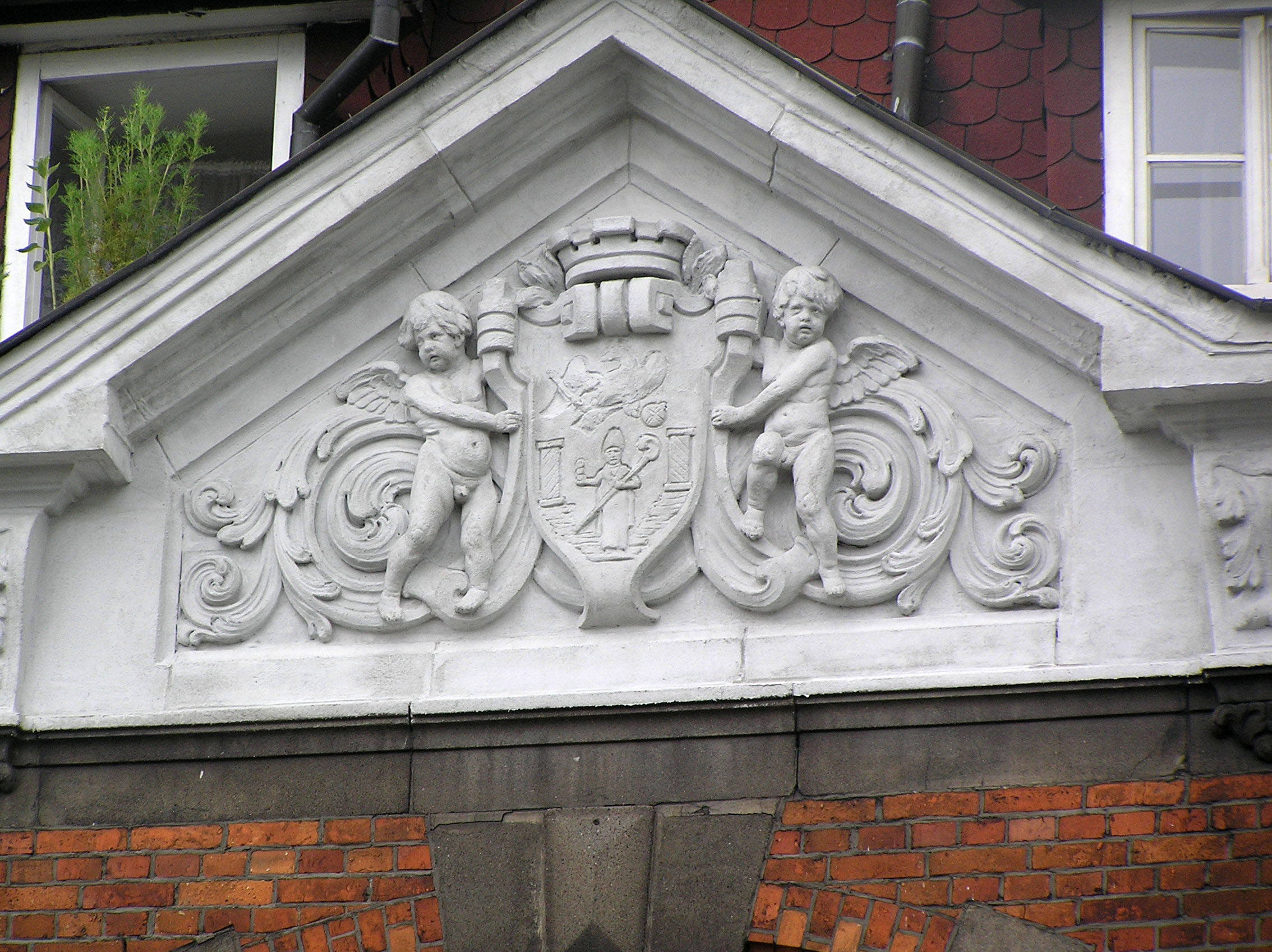 Toruń-Podgórz, coat of arms of Podgórz at the town hall